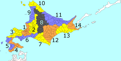 Subprefectures of Hokkaido